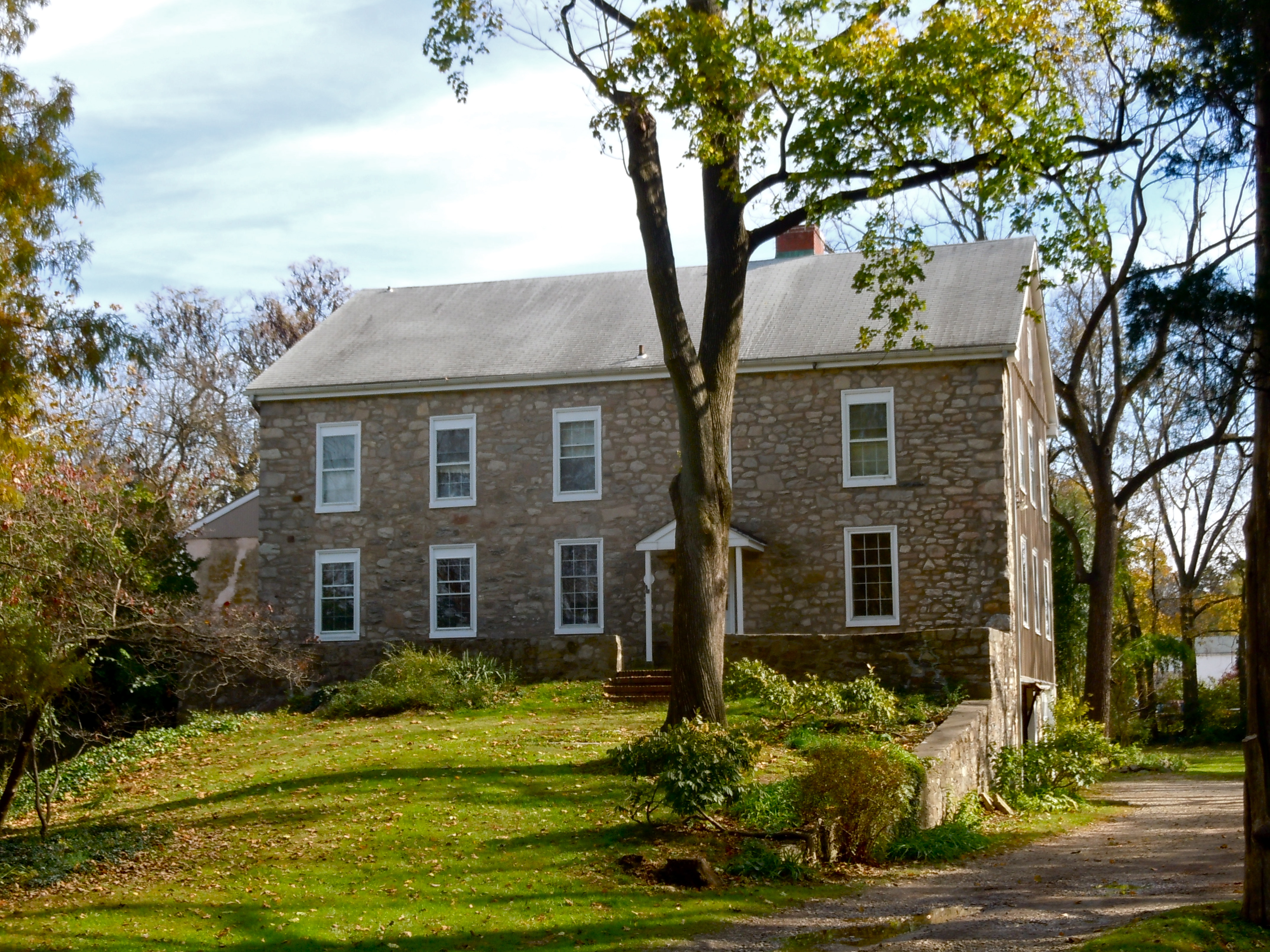 Maulsby Barn from Butler Pike, in Plymouth Meeting, Montgomery County, Pennsylvania. A bit of the roof of Abolition Hall is visible at far left, behind the barn. The Maulsby-Corson-Hovenden House, at 1 East Germantown Pike, is southwest of the barn. Hovenden House, Barn and Abolition Hall is on the NRHP as a unit, since February 18, 1971.